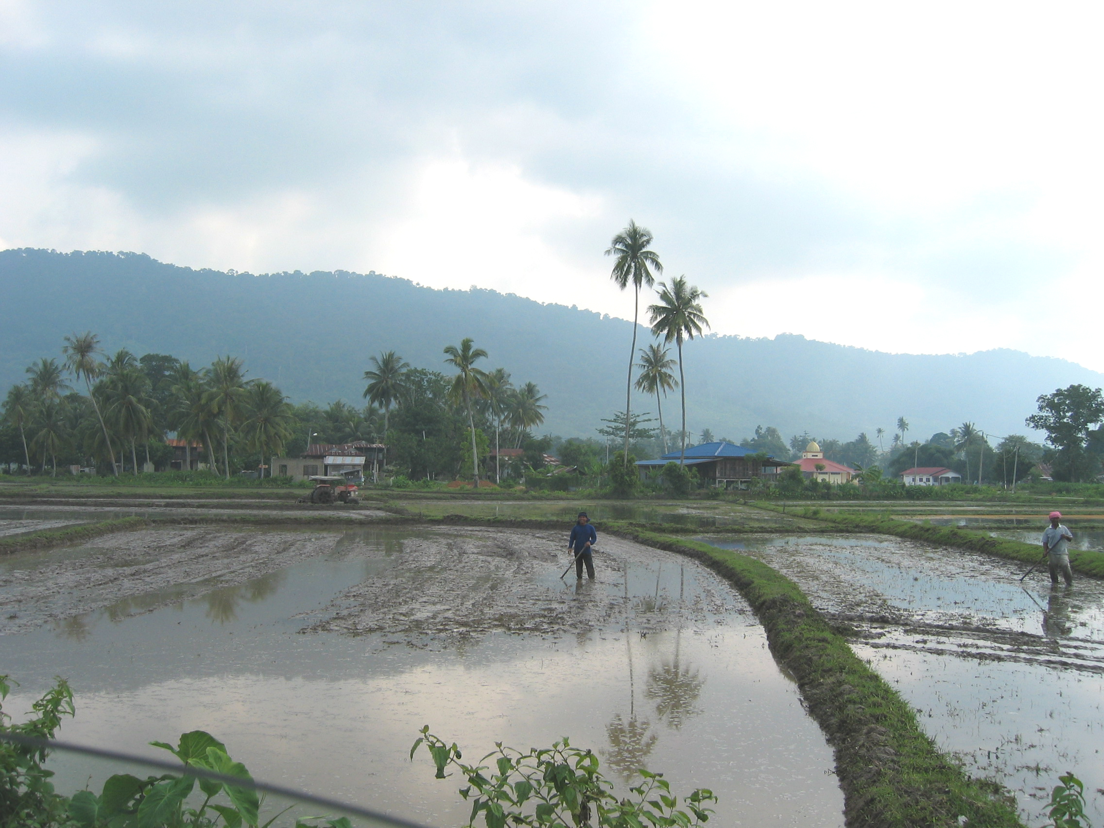 Paddy fields in Langkawi, Malaysia Picture taken by Dave Sumpner